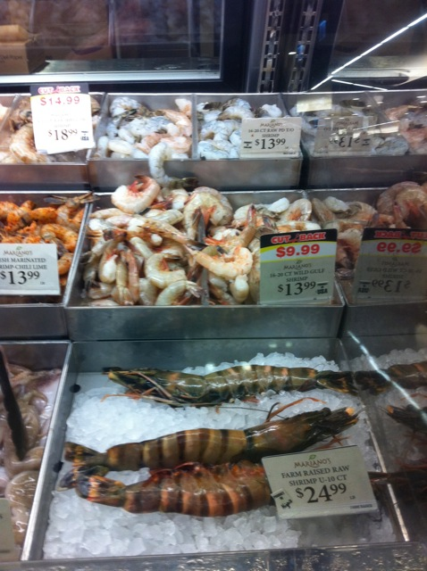 at Mariano's, Chicago Wild gulf shrimp dwarfed by these behemoth farm raised versions. We wonder if you can get "cuts" of that large shrimp - just the loin please...